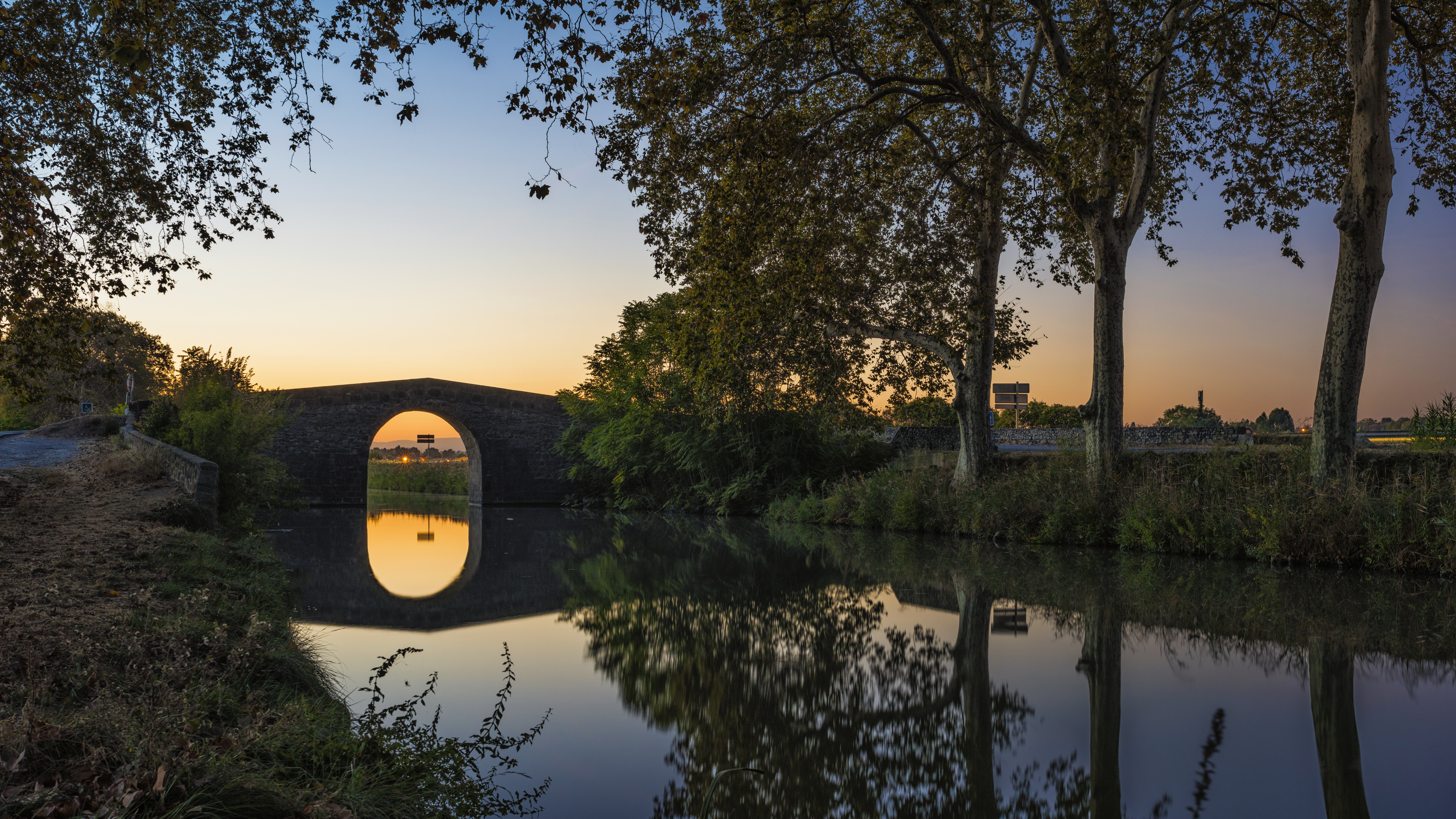 The Caylus Bridge reflected in the Canal du Midi. Villeneuve-lès-Béziers - Hérault, France